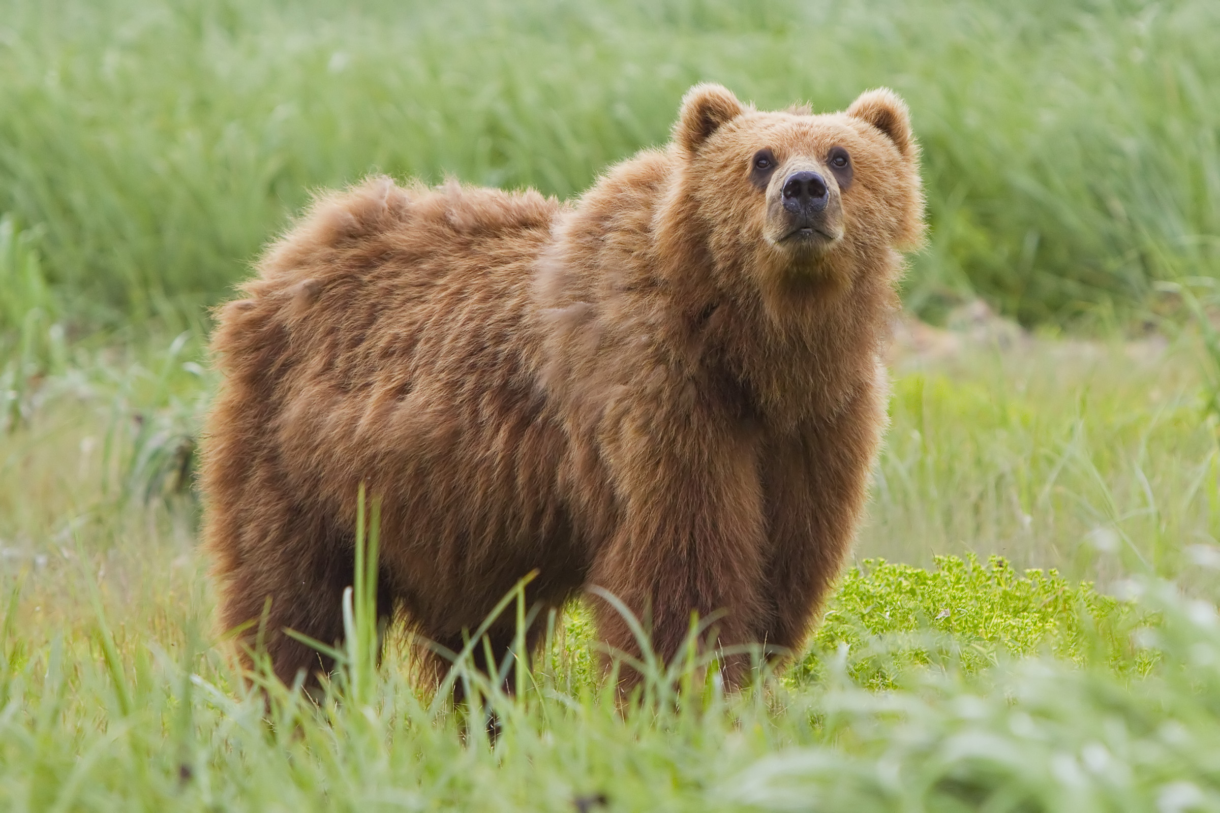 Kodiak Bear (Ursus arctos middendorffi) in Kodiak National Wildlife Refuge, Alaska, United States.